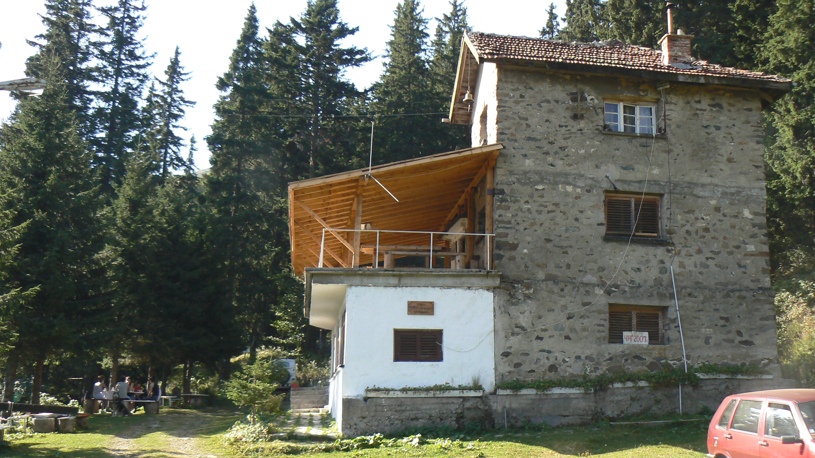 Old hut "Kom", Balkan, Bulgaria